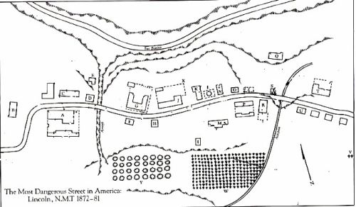 "The Most Dangerous Street in America: Lincoln, N.M.T. 1872-81" A map of Lincoln, New Mexico as it was from 1872 to 1881.